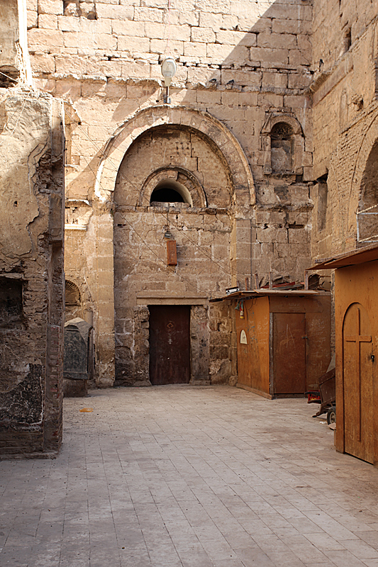 Library in the southeats corner of the monastery church, White Monastery, Egypt